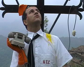 Kristo 33 a film by Flavio Sciolè (2002)